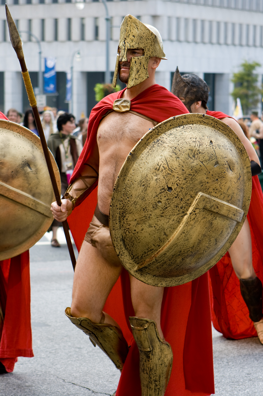 Man with a costume of a Spartan soldier, at DragonCon Parade in Atlanta in 2007.